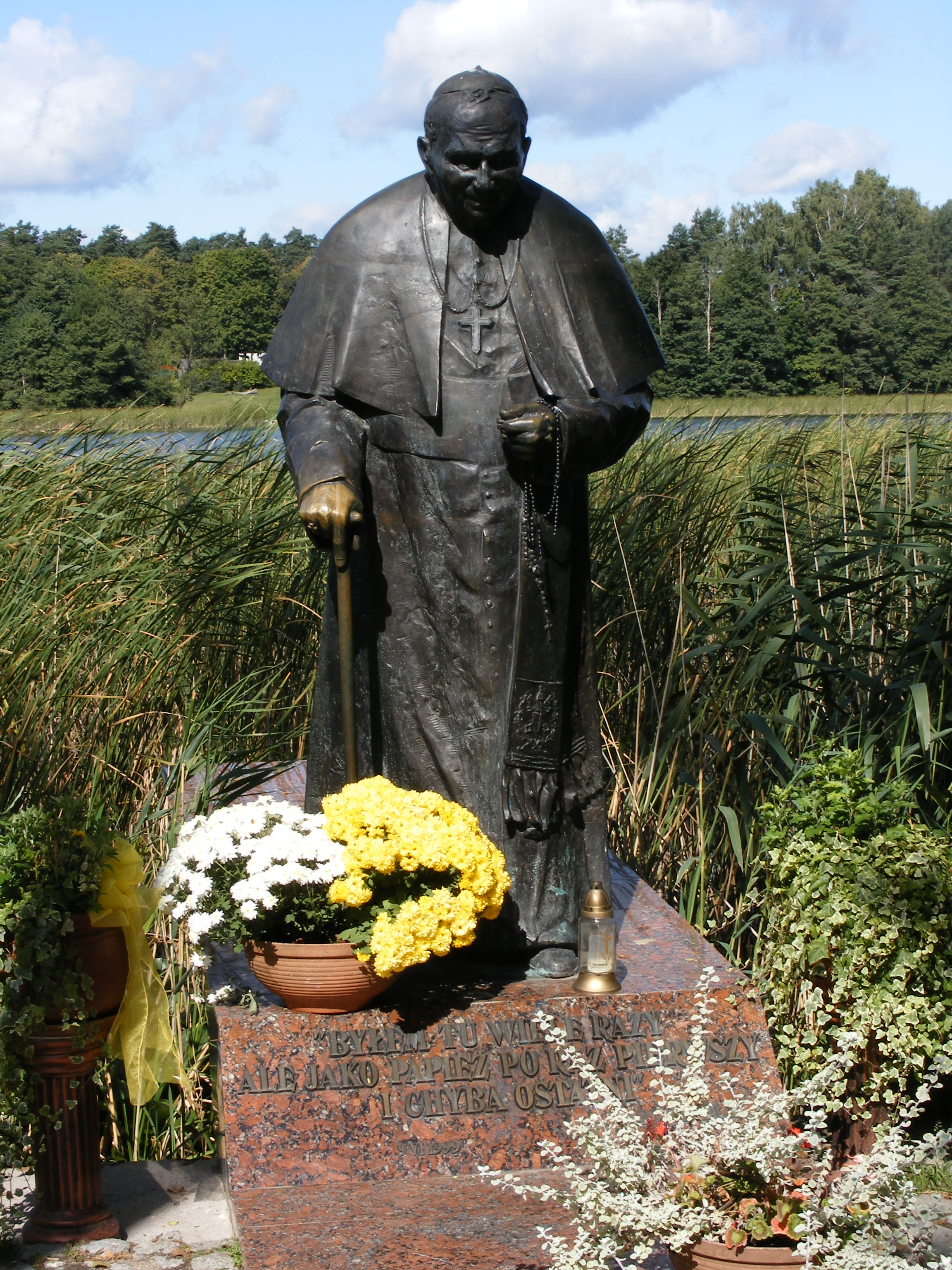 John Paul II monument in Studzieniczna, Poland.